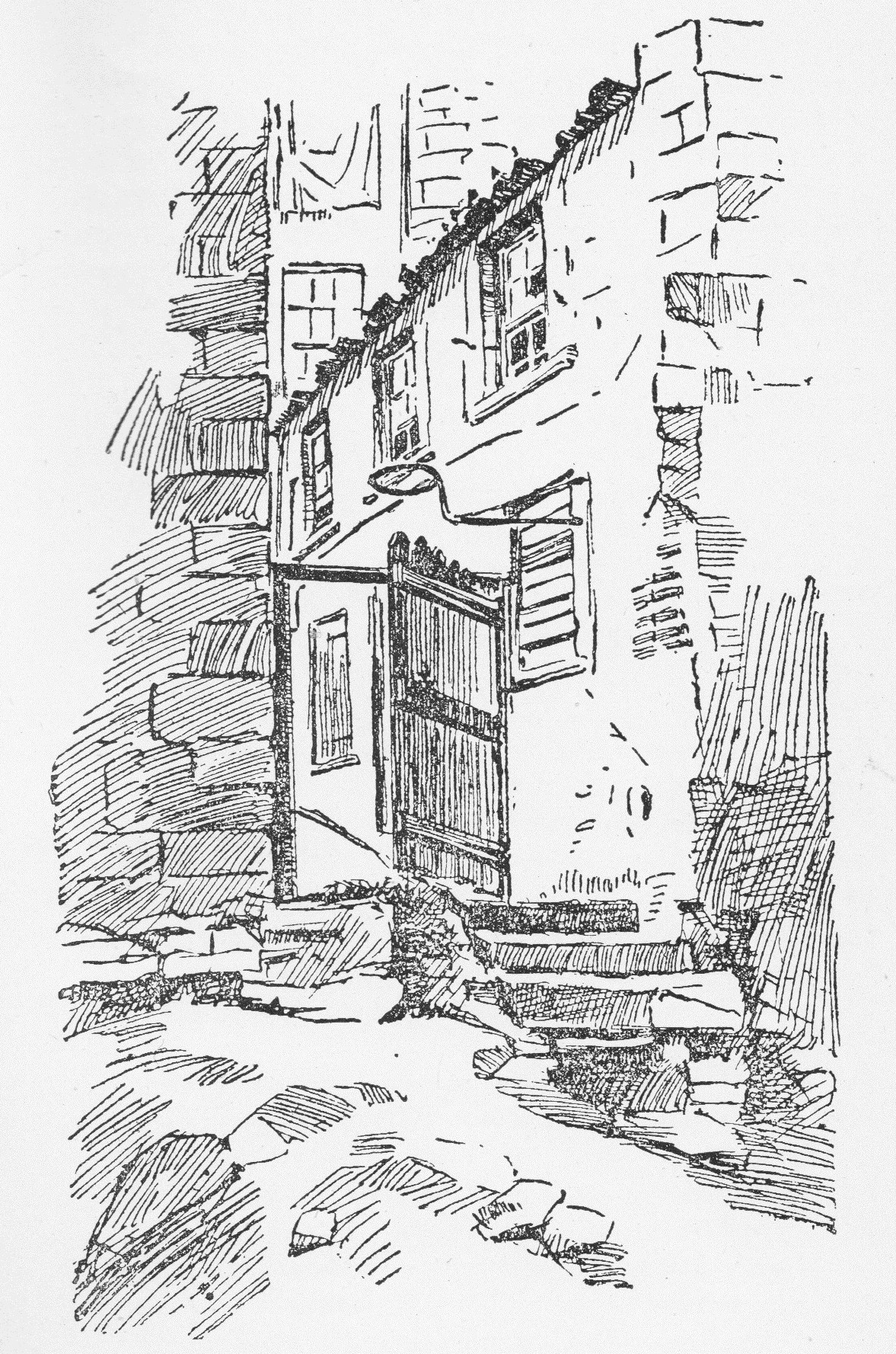 Hares' lodging-house, Tanner's Close at the time of its demolition in 1902